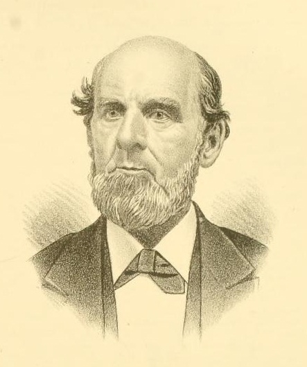 Portrait of New York state senator Ralph Richards